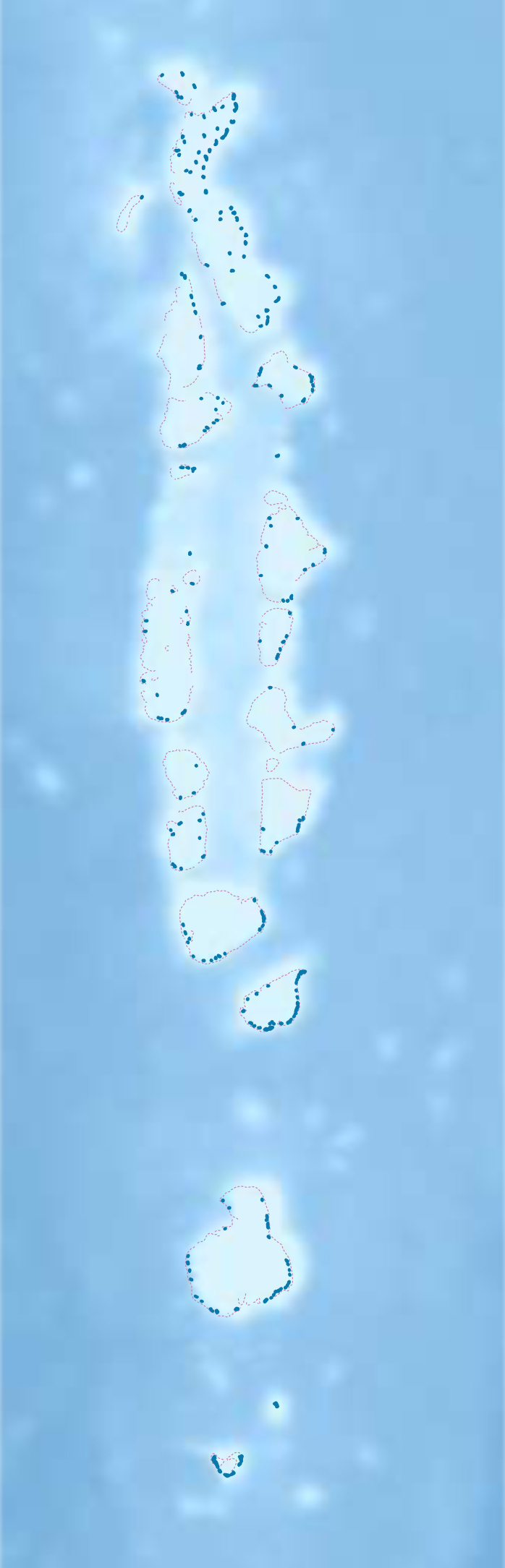 Physical location map of the Maledives Equirectangular projection. Geographic limits of the map: N: 7.5° N S: 1.2° S W: 71.9° E E: 74.7° E